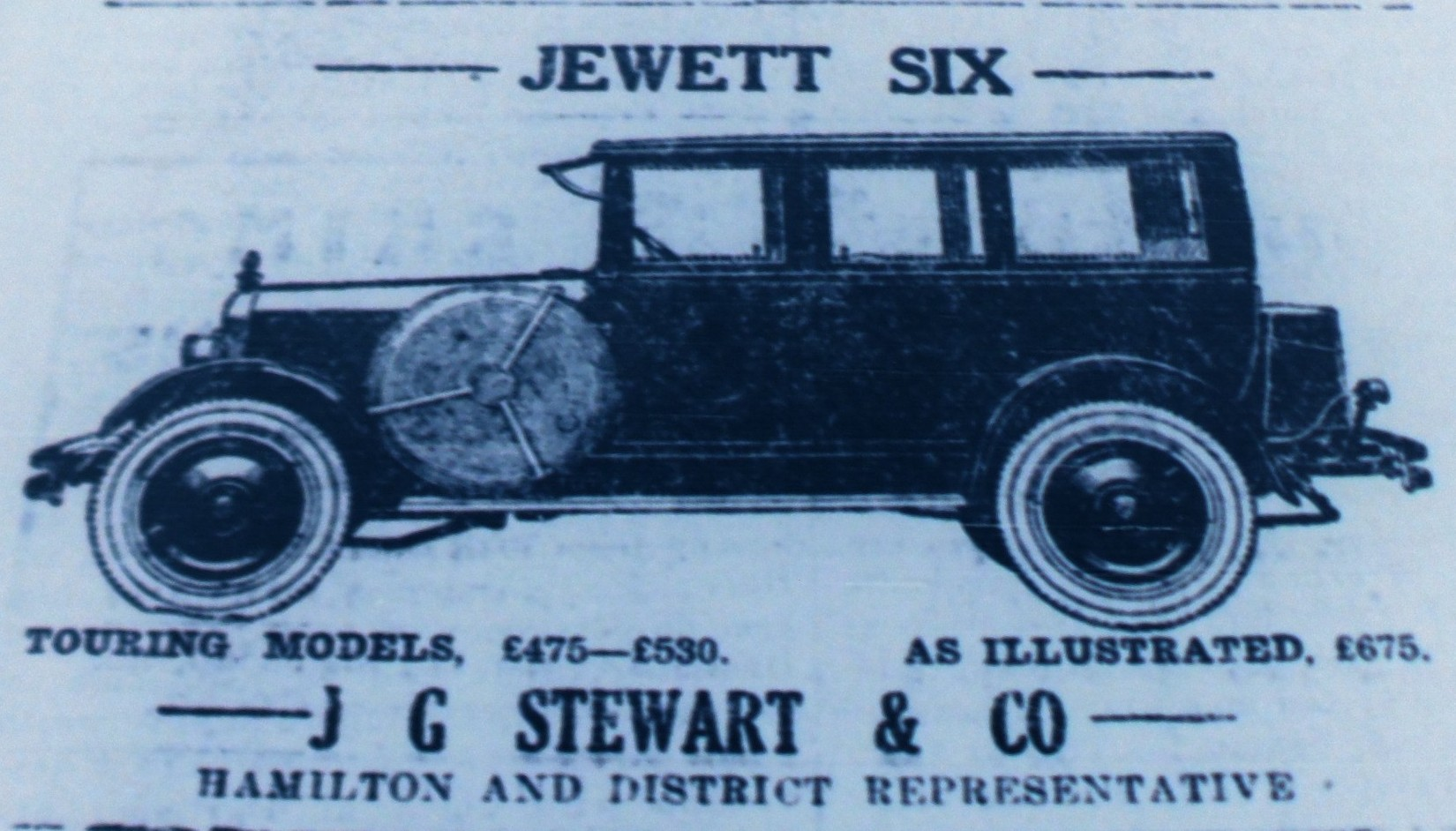 Australiain advertisement for the 1925 Jewett Six